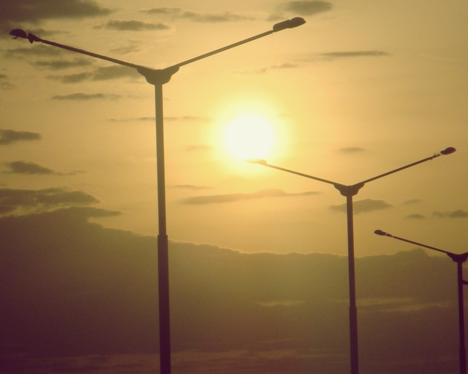 Turkmenbashy city